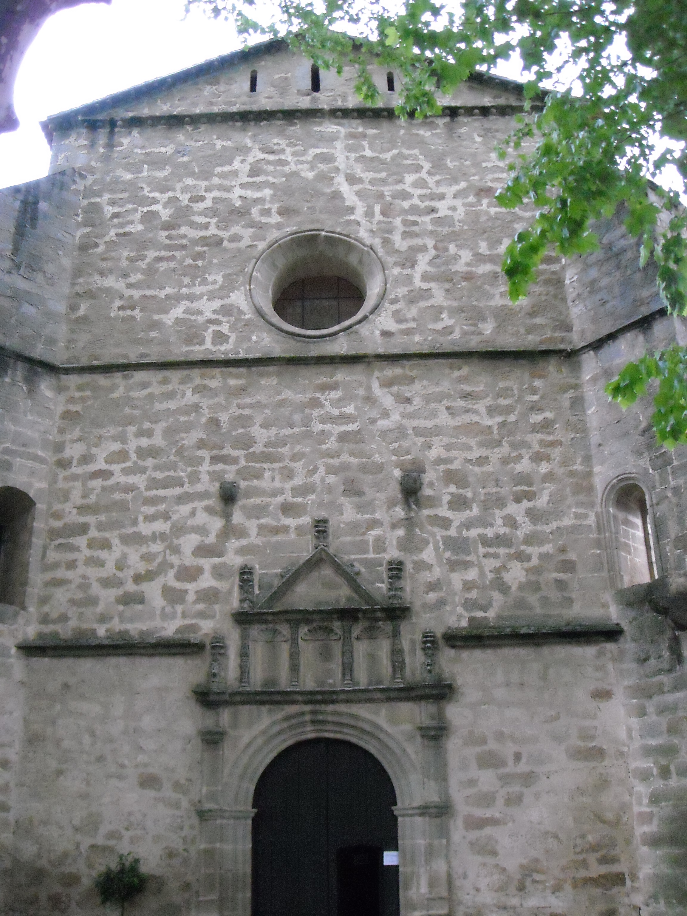 Church, Monastery of Yuste, Cuacos de Yuste, Cáceres, Spain